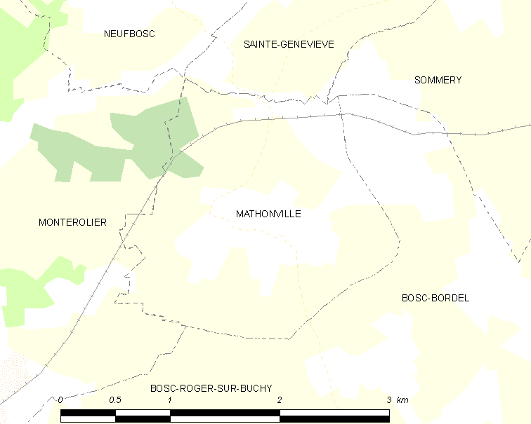 Map of French municipality Mathonville